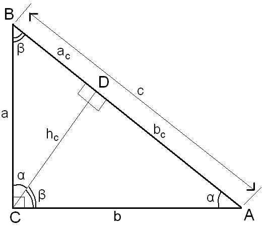 Right triangle